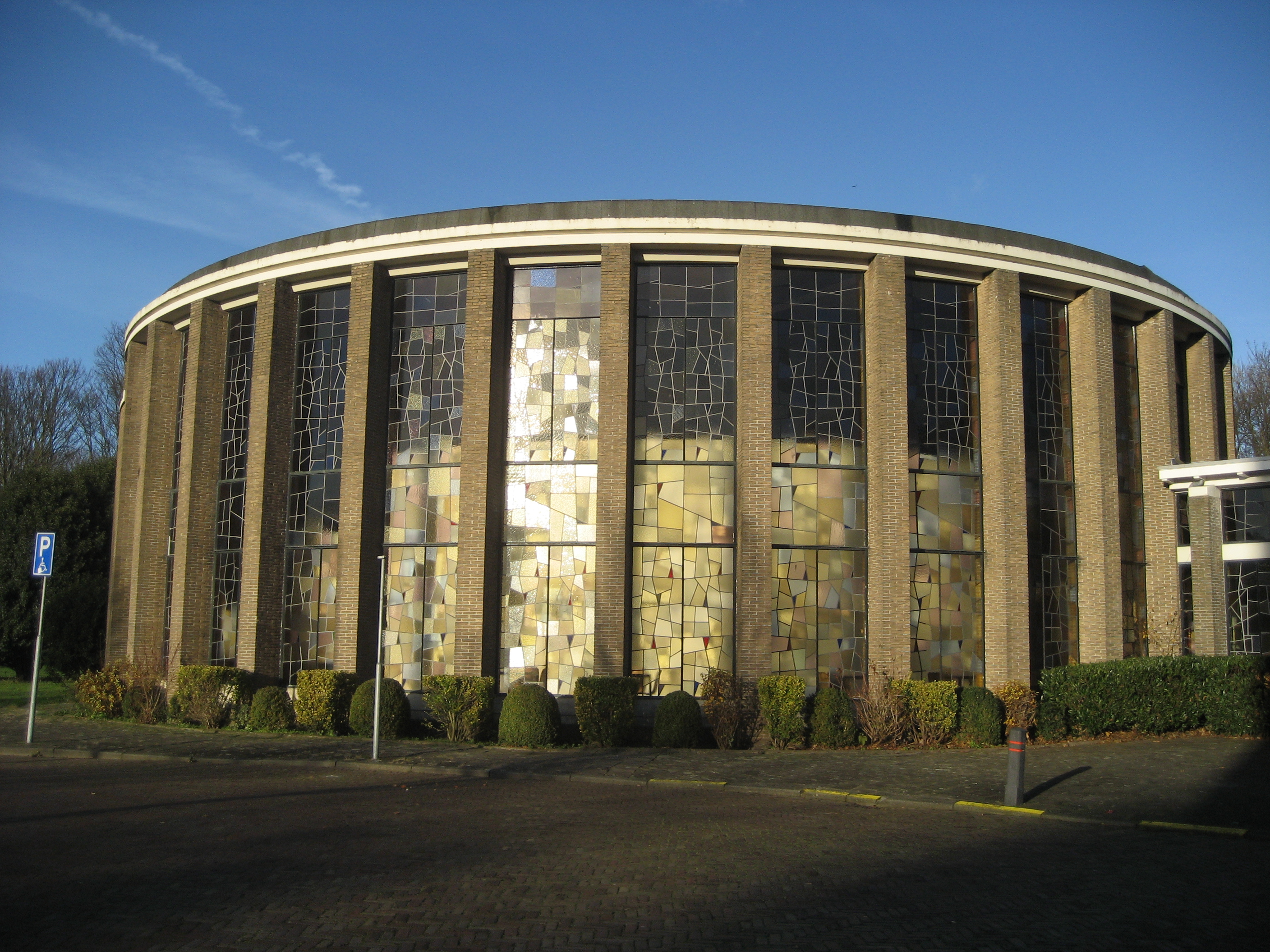 St. Joseph Opifex Church, (St. Joseph the Worker), Burgemeester Sweenslaan 7, 2262 BN Leidschendam, The Netherlands. Architect Hendrik van de Leur. Since May 2012 Art Gallery Yellow Fellow Leidschendam